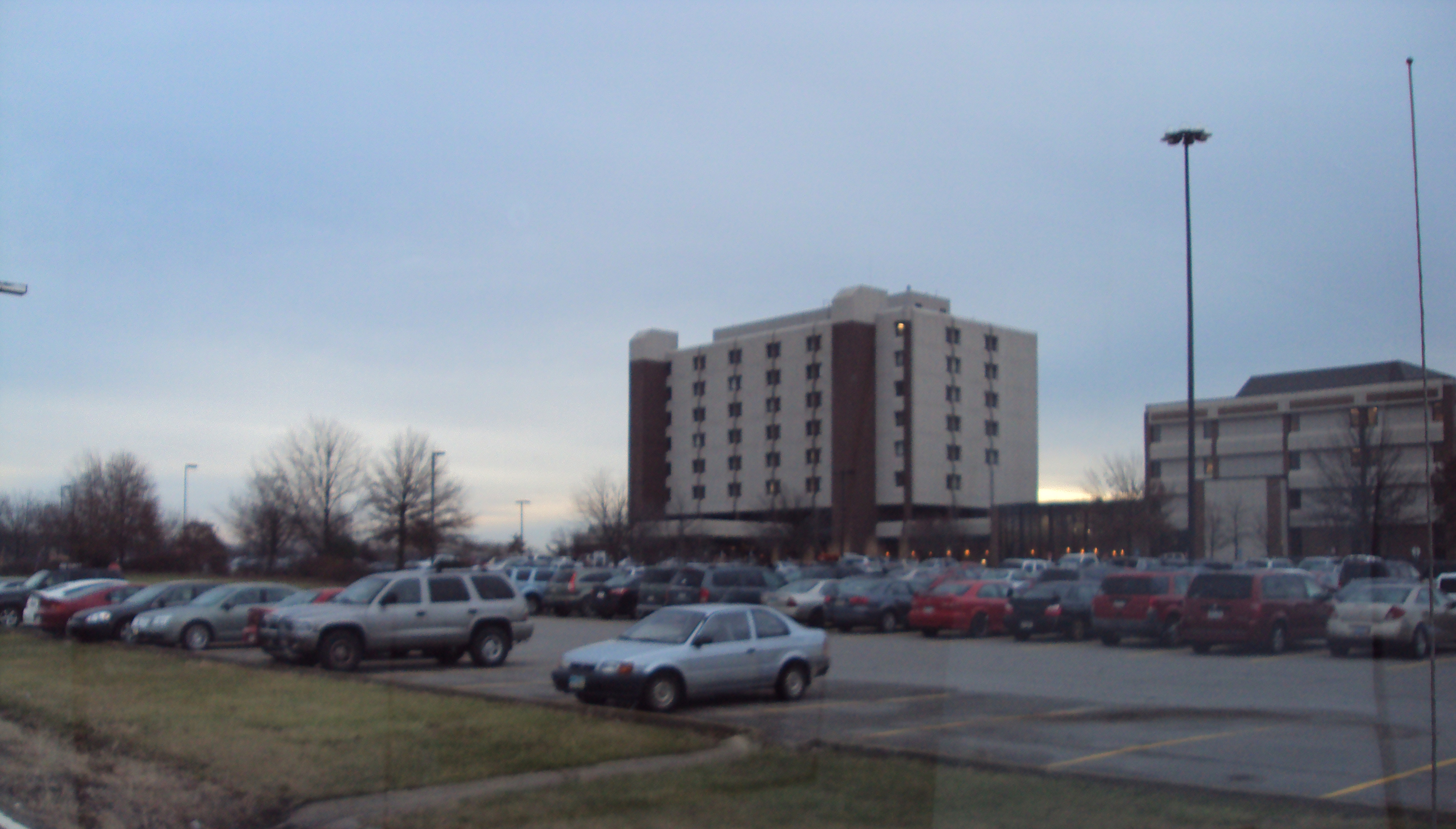 Picture of Weirton Medical Center for use in the Weirton, West Virginia and Weirton Medical Center articles. Other information Picture of Weirton Medical Center for use in the Weirton, West Virginia and Weirton Medical Center articles.